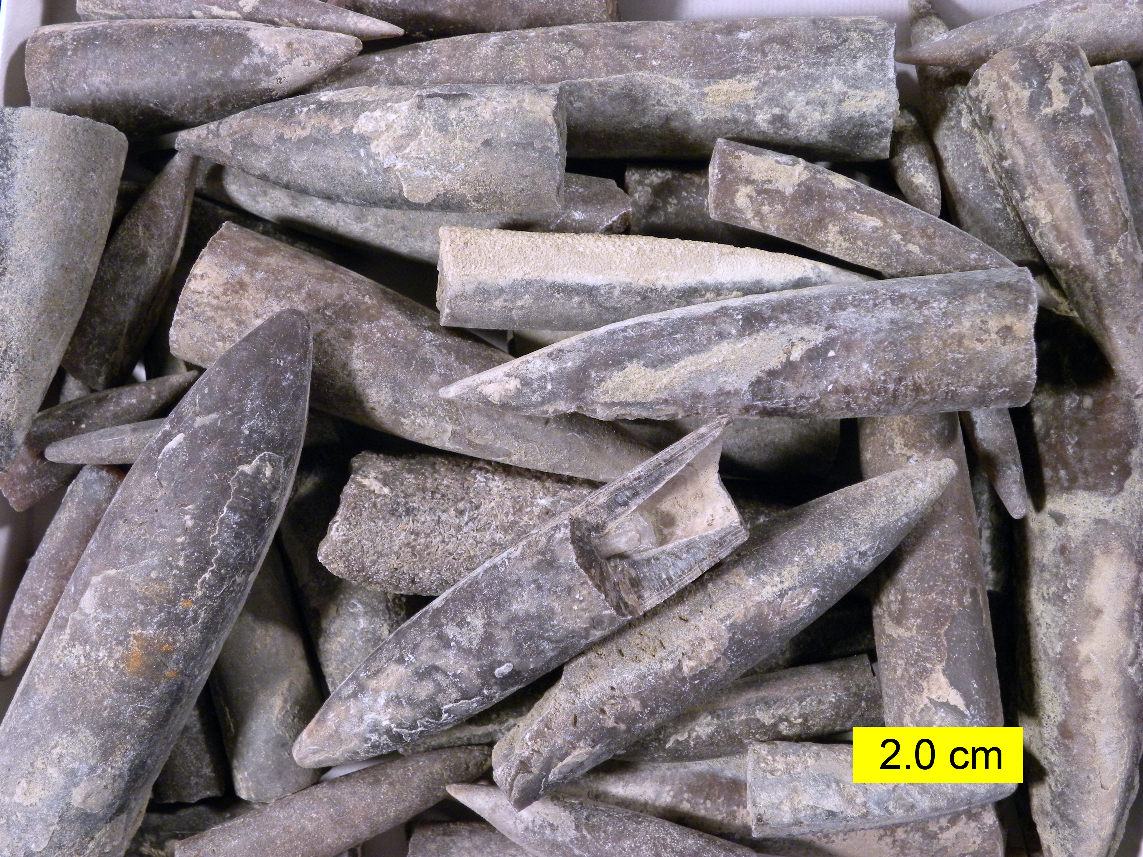 Belemnites from the Jurassic of Wyoming.